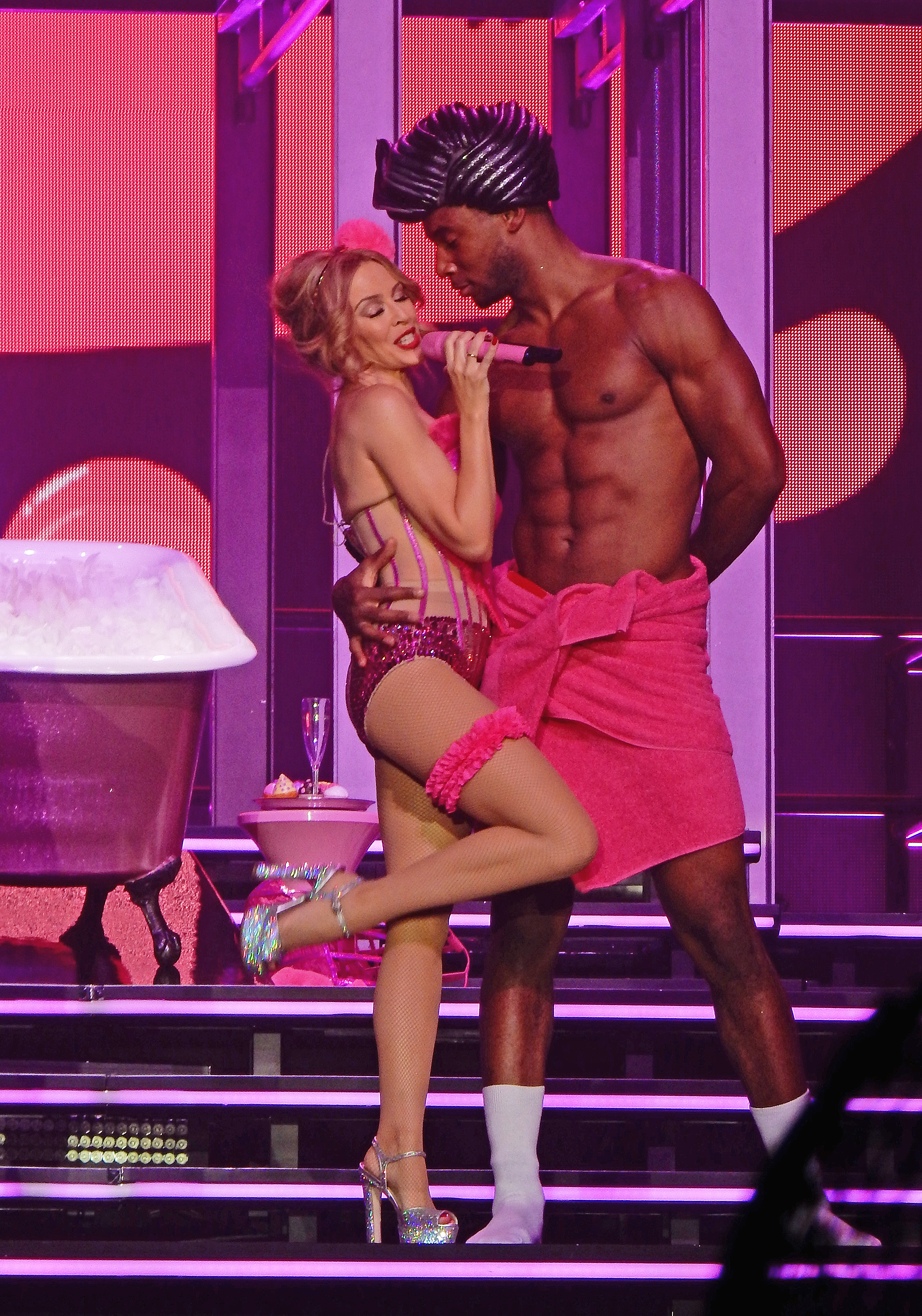 Kylie Minogue - Motorpoint Arena - Sheffield - 13.11.14. - (024)